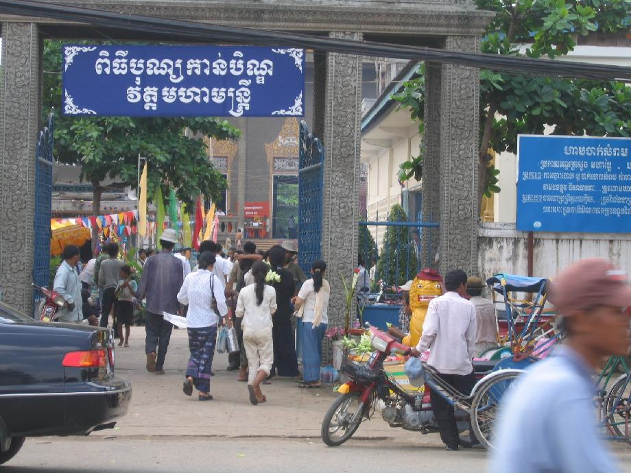 PHNOM PENH: Entry to WAT MOHA MONTREY at PCHUM BEN day